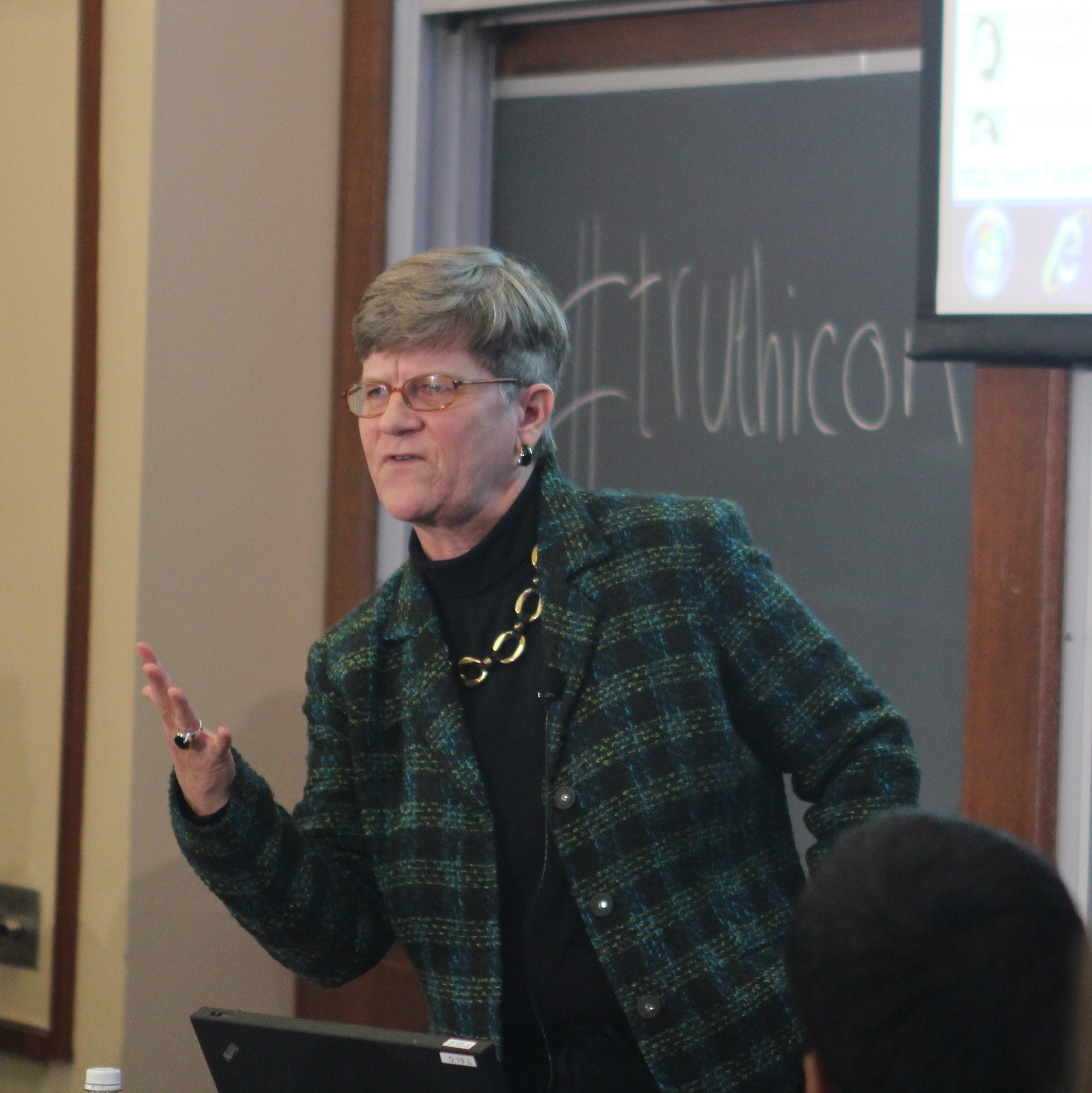 Kathleen Hall Jamieson